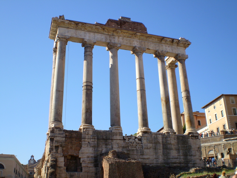 The Temple of Saturn in the Forum Romanum, Rome